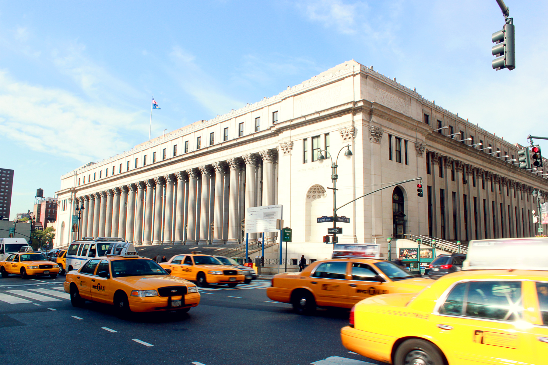 U.S. General Post Office